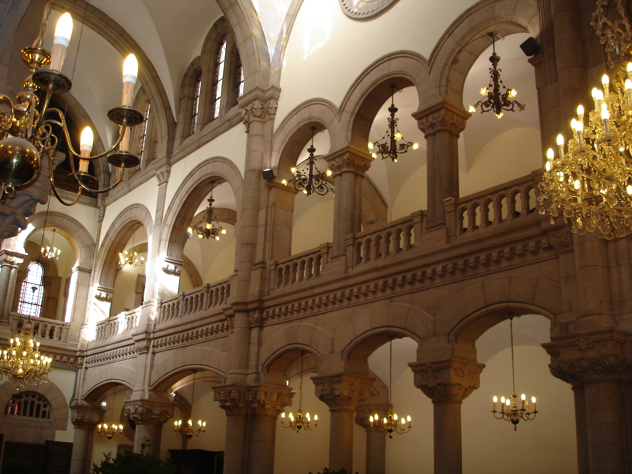 Great synagogue of Lyon; the gallery for the women